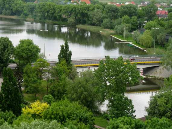 Kruszwica